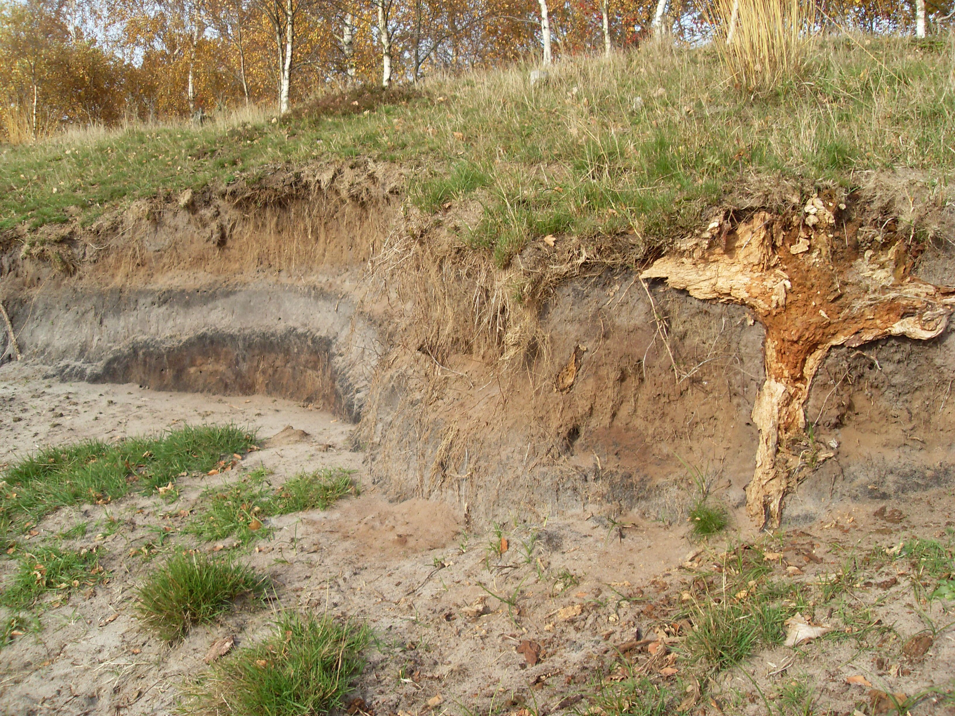 Dune with Podsol profile in the Nature Reserve Düne am Treßsee, dune away from shore